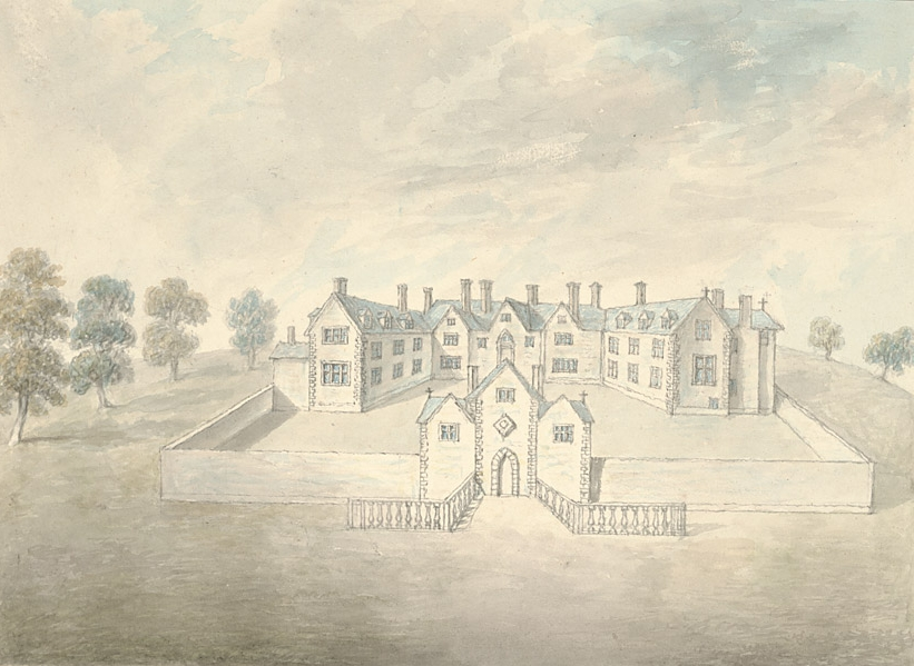 Llwydiarth, Anglesey 1794